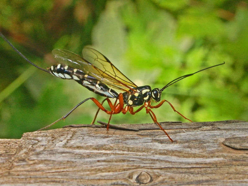 Rhyssa persuasoria